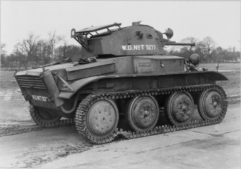 Tanks and Afvs of the British Army 1939-45 Light tank Mk VII Tetrarch